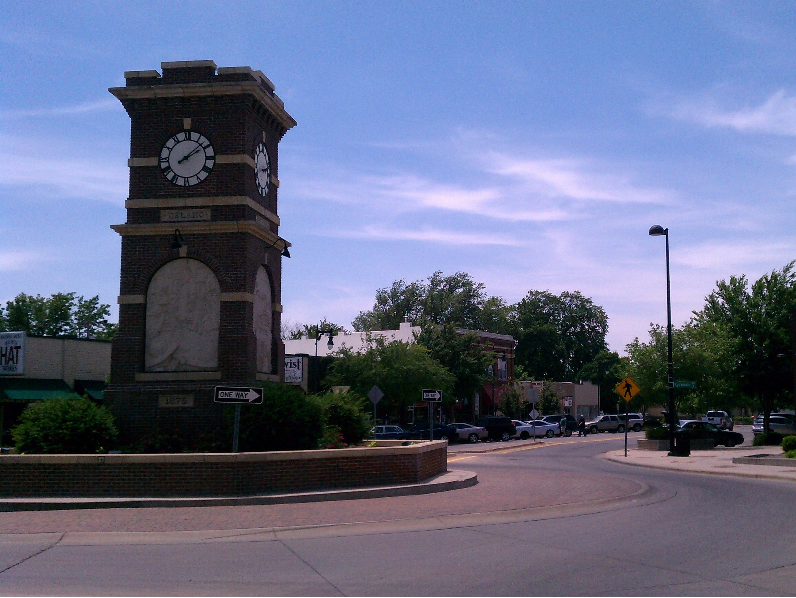 Delano Clock Tower in the roundabout at Douglas and Sycamore